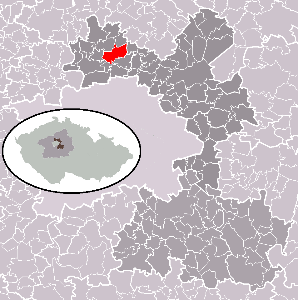 Location of Bašť municipality within Prague-East District and administrative area of Brandýs nad Labem-Stará Boleslav as a Municipality with Extended Competence.